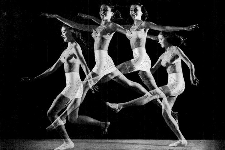 Photo from an International Latex Company ad for its "Living Girdle". A copyright renewal search was done in artwork for the years 1976 and 1977. There were no renewals for the International Latex Company. The Life magazine copyright renewal status would have no bearing on whether or not this ad was now in the public domain because magazines are considered to be collective works; any ads in them must have their own copyright registration to be considered protected. US Copyright Office page 3-magazines are collective works (PDF) There's no evidence the International Latex Company renewed the copyright on the ad.